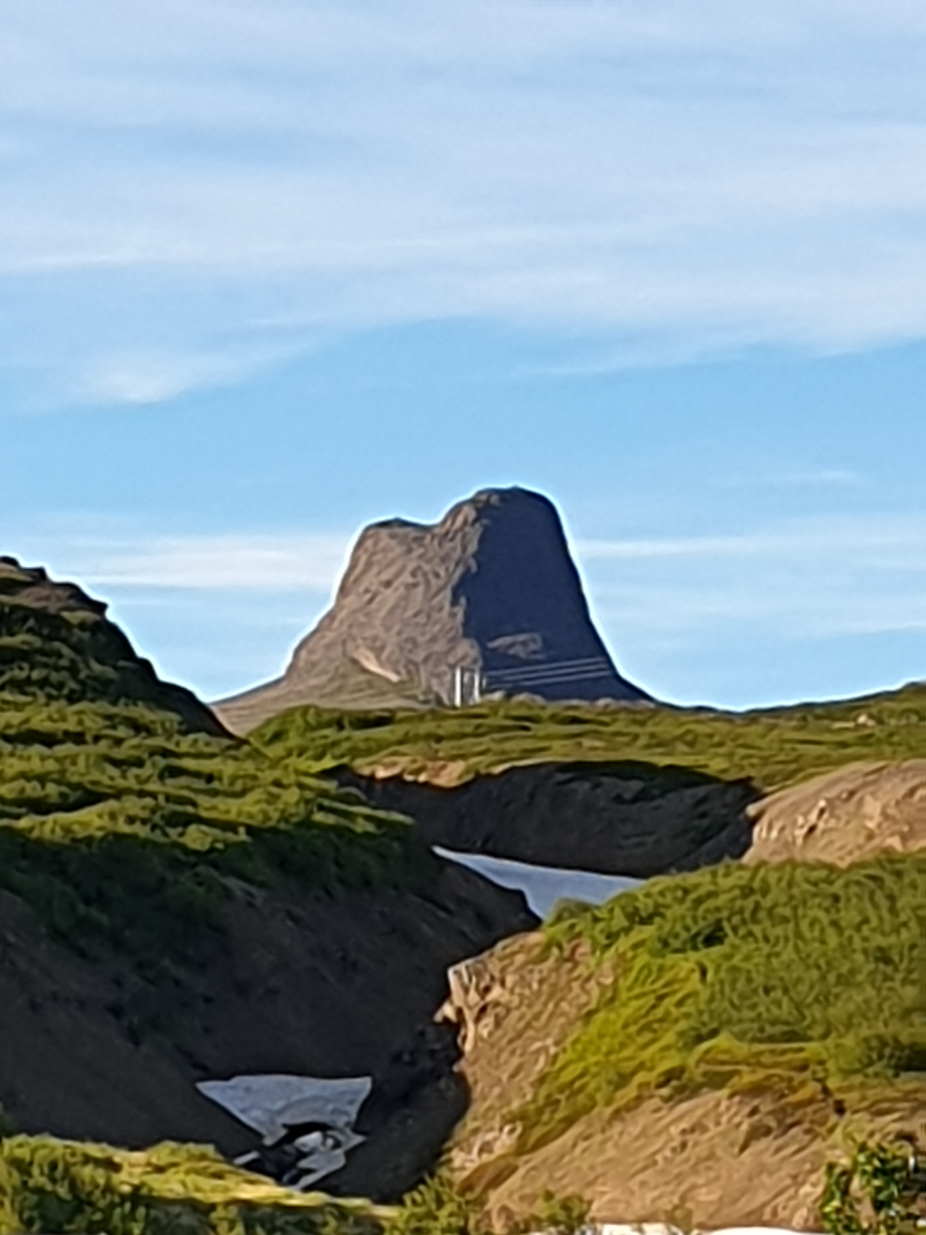 Vaðalfjöll